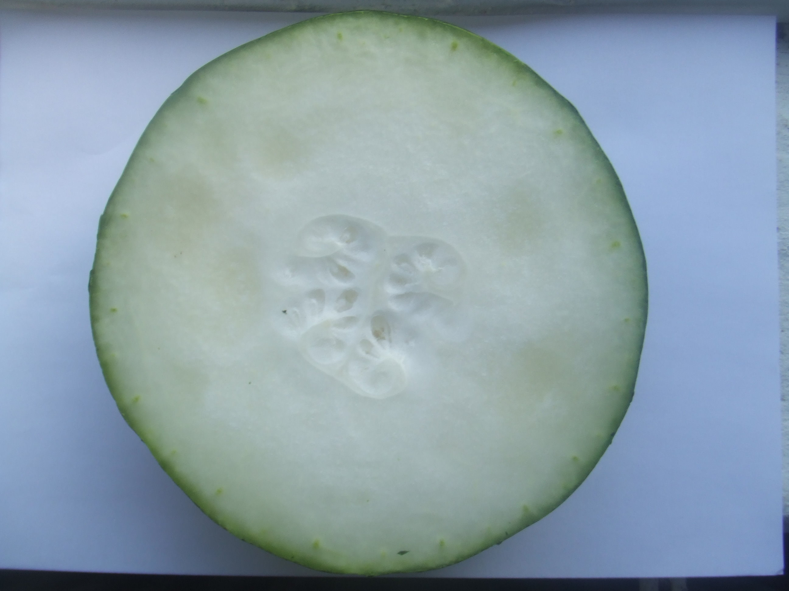 Benincasa hispida, slice bought at a Chinese supermarket, West-Kruiskade, Rotterdam, The Netherlands